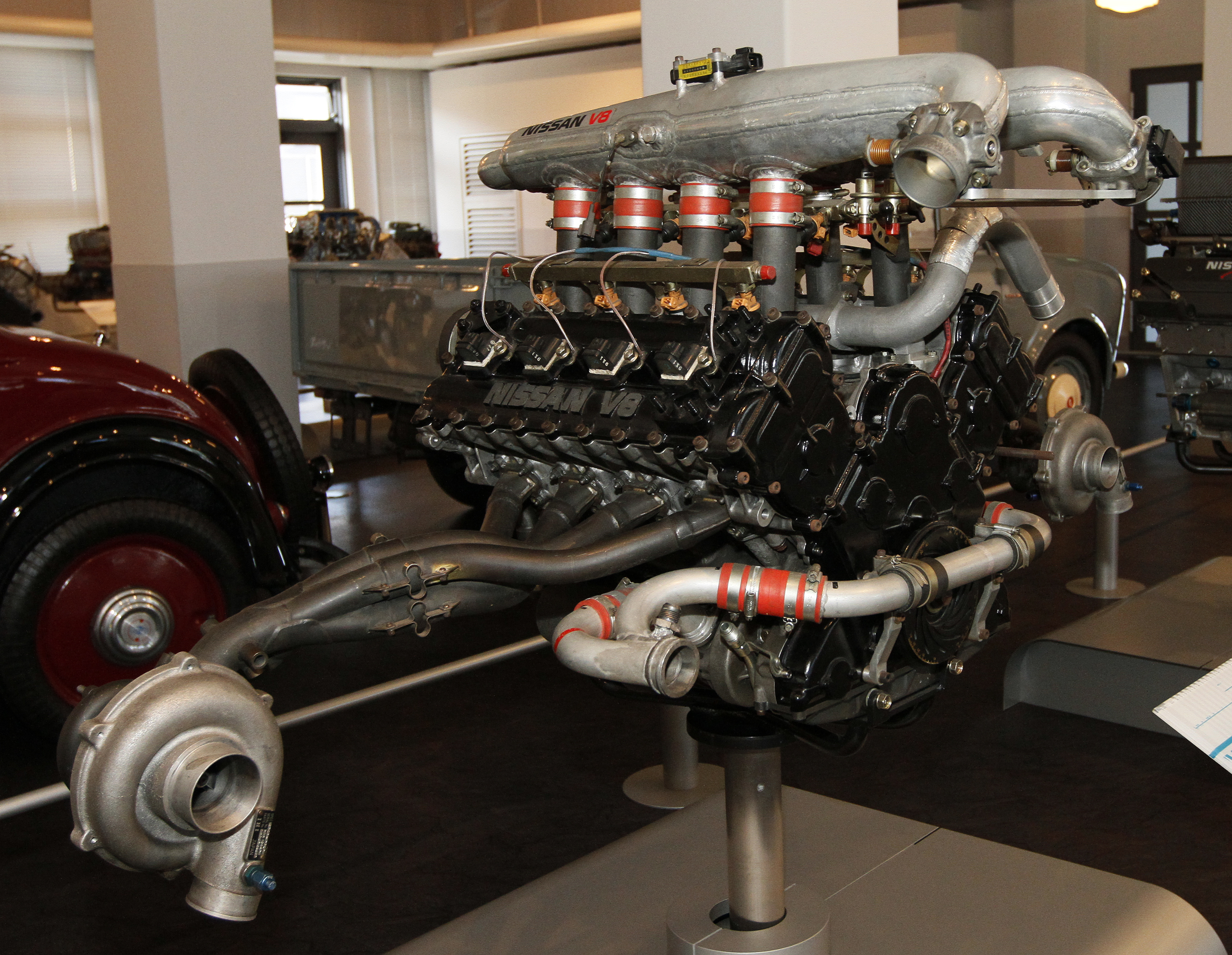 1990-1992 Nissan VRH35Z engine (for Nissan Group C cars)